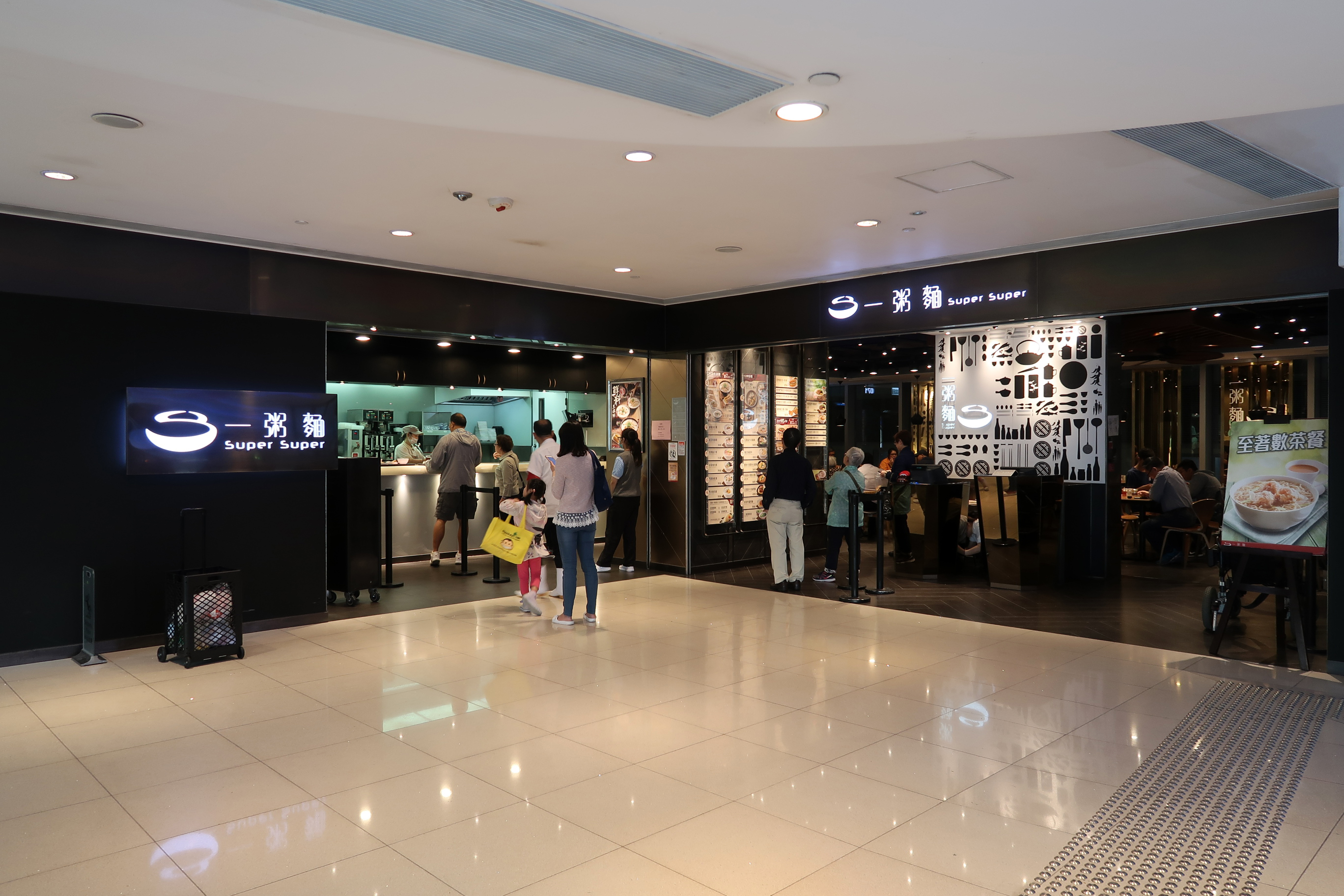 Super Super Congee & Noodle in domain mall